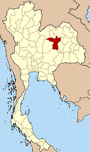 Map of Thailand highlighting Khon Kaen province